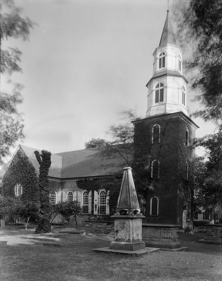 Bruton Parish Church and churchyard, Williamsburg, James City County, Virginia, by the American photographer and photojournalist Frances Benjamin Johnston. 8 x 10 safety negative is dated 1930-1939. Image from the Prints and Photographs Division, Library of Congress, Washington, D.C., to which photographer Johnston bequeathed her archives in perpetuity, hence there are no restrictions on publication. (See LOC website.) The memorial shaft monument to Col. John Page, who donated the land for Bruton Parish Church and who died in 1692 at age 65, can be seen to the right of the front door of the church.